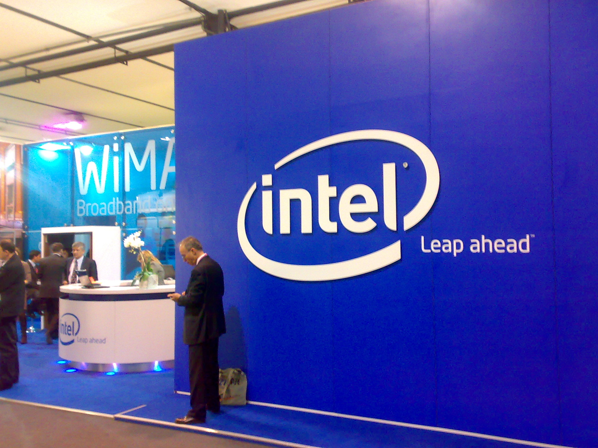 Intel stand at GSMA Barcelona 2008.